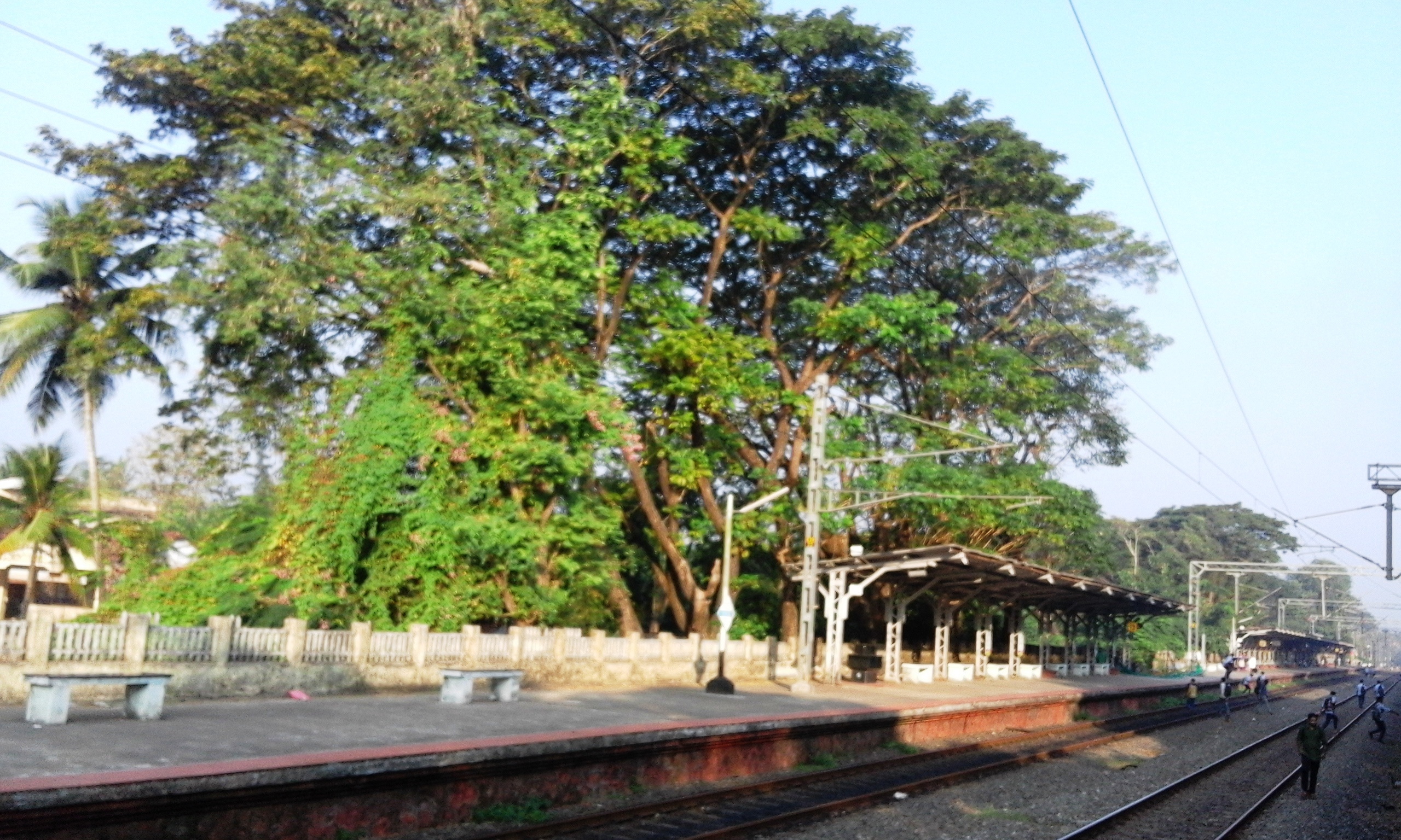 Parappanangadi, Malappuram, India.